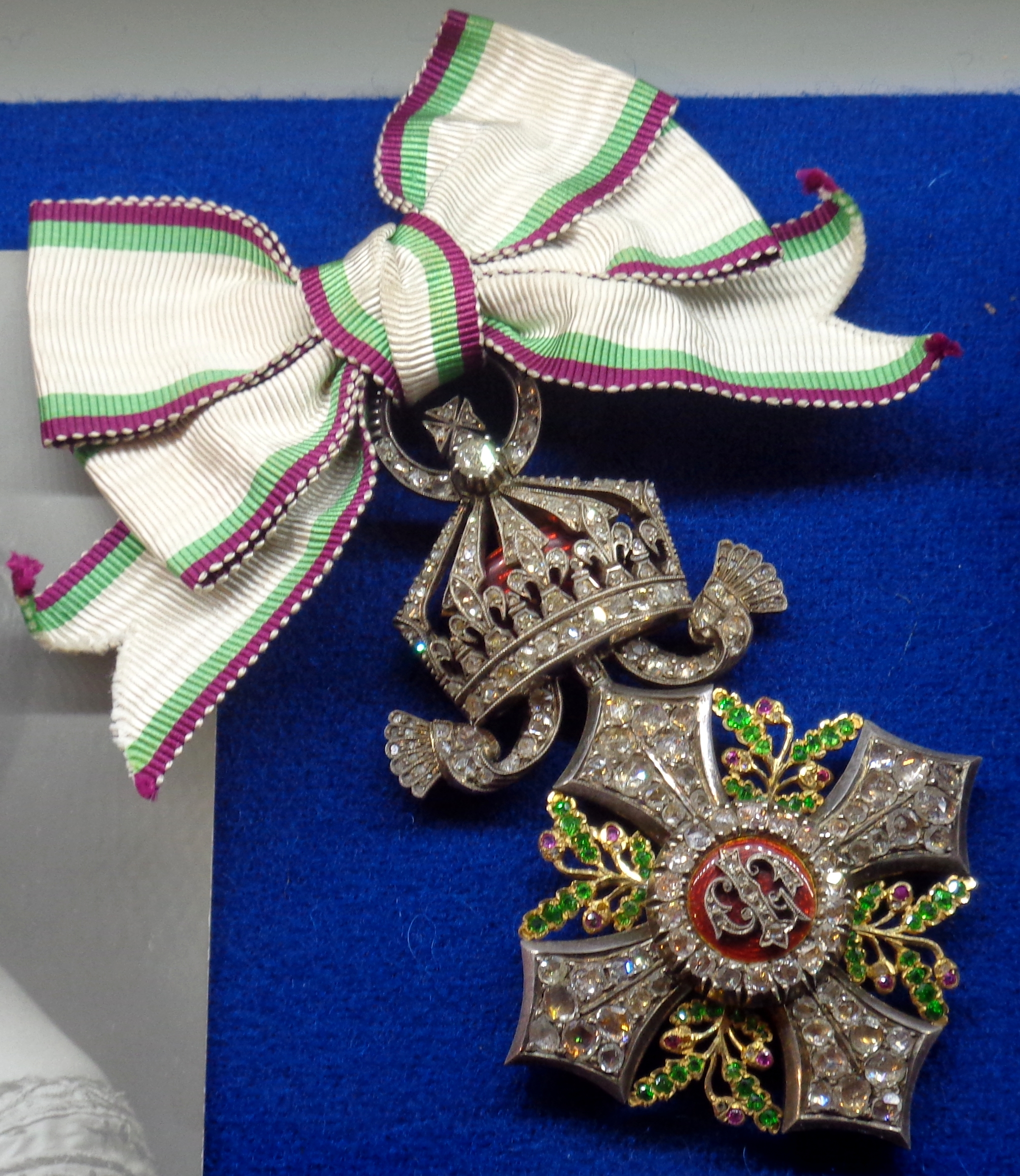 Order of Civil Merit, badge with diamonds for Ladies. Kingdom of Bulgaria. The exhibition of the Tallinn Museum of Orders of Knighthood, Estonia.